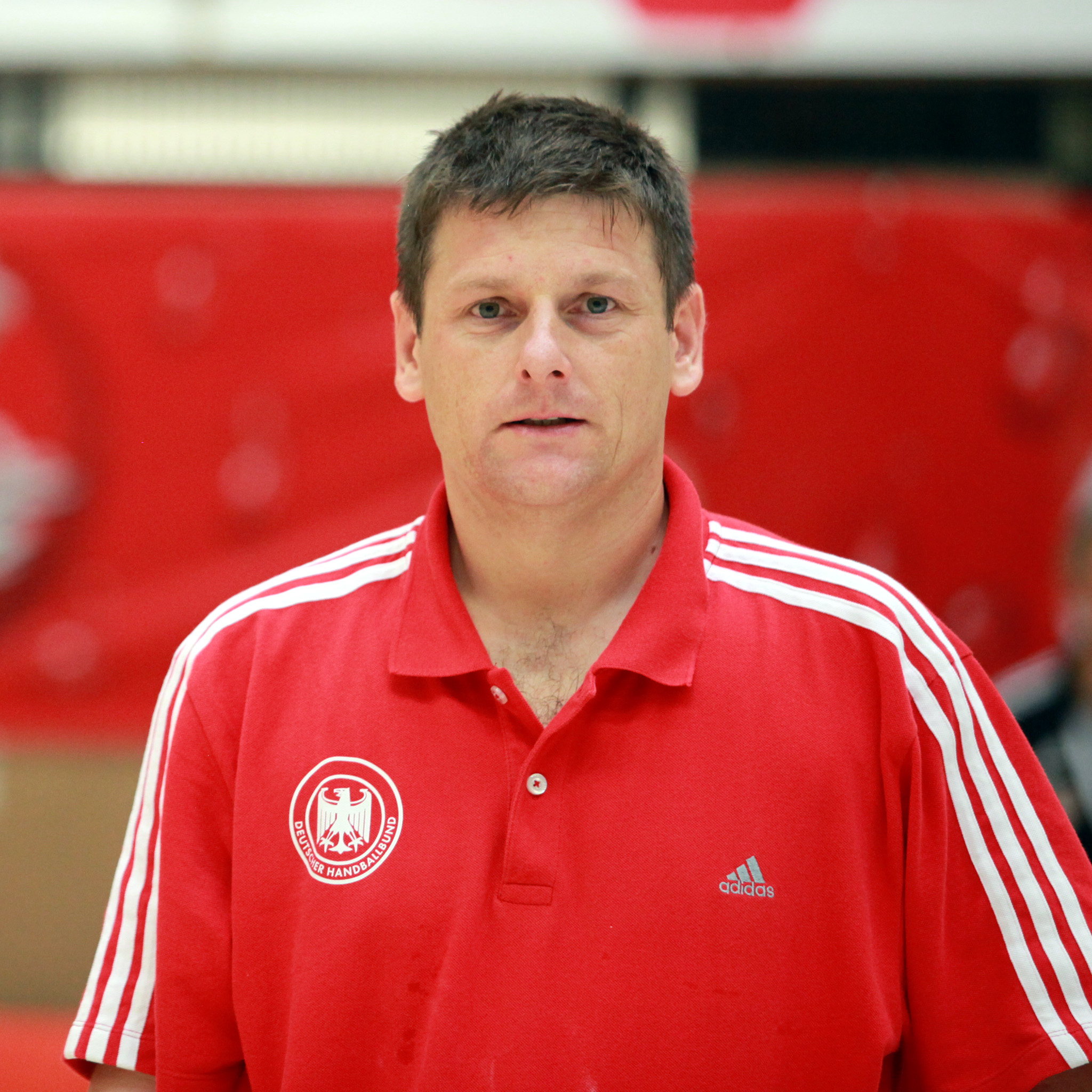 Jürgen Rieber, German handball referee, during the Schlecker Cup 2011.